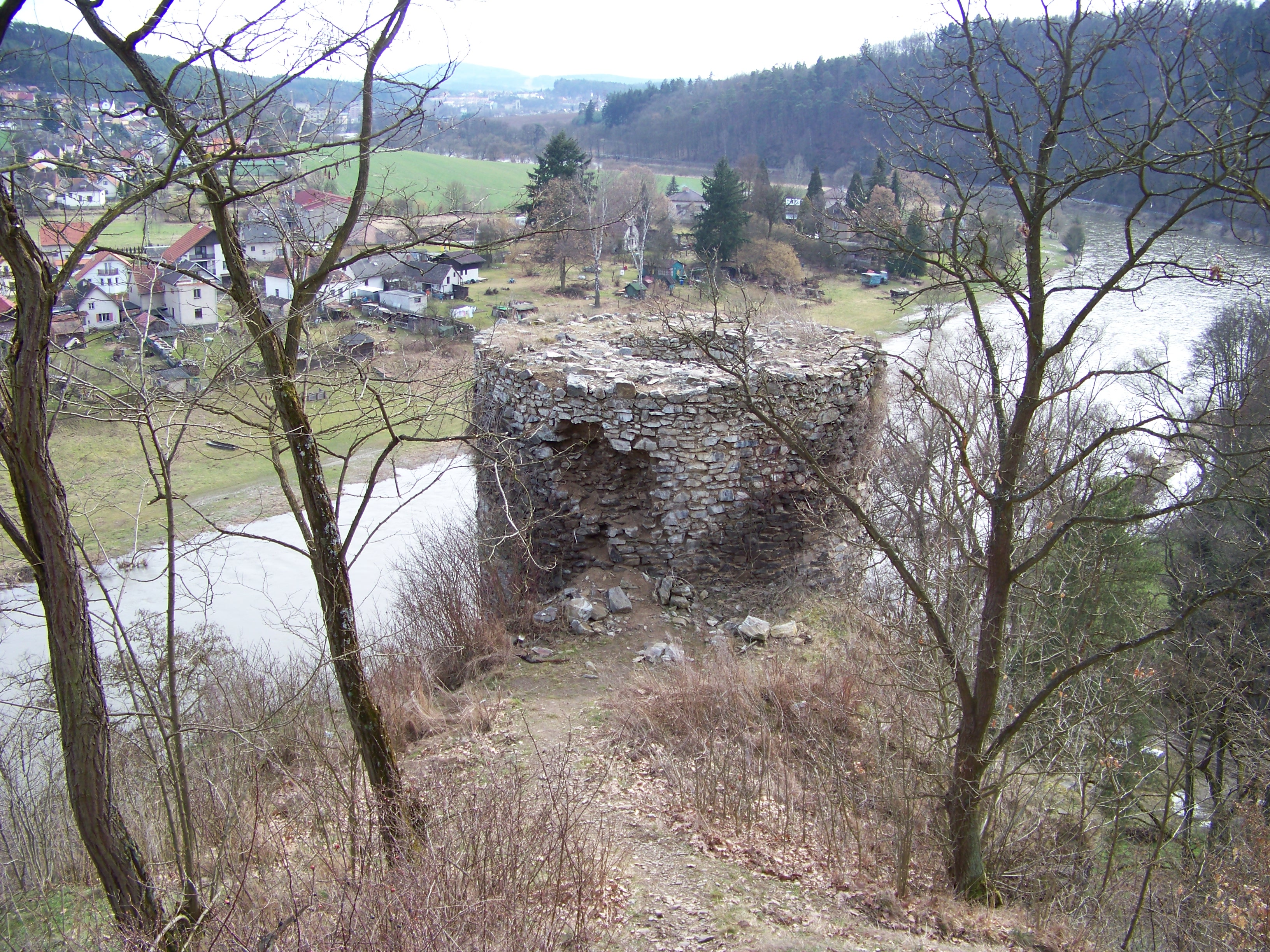 Týnec nad Sázavou-Zbořený Kostelec, the Czech Republic. Zbořený Kostelec Castle.